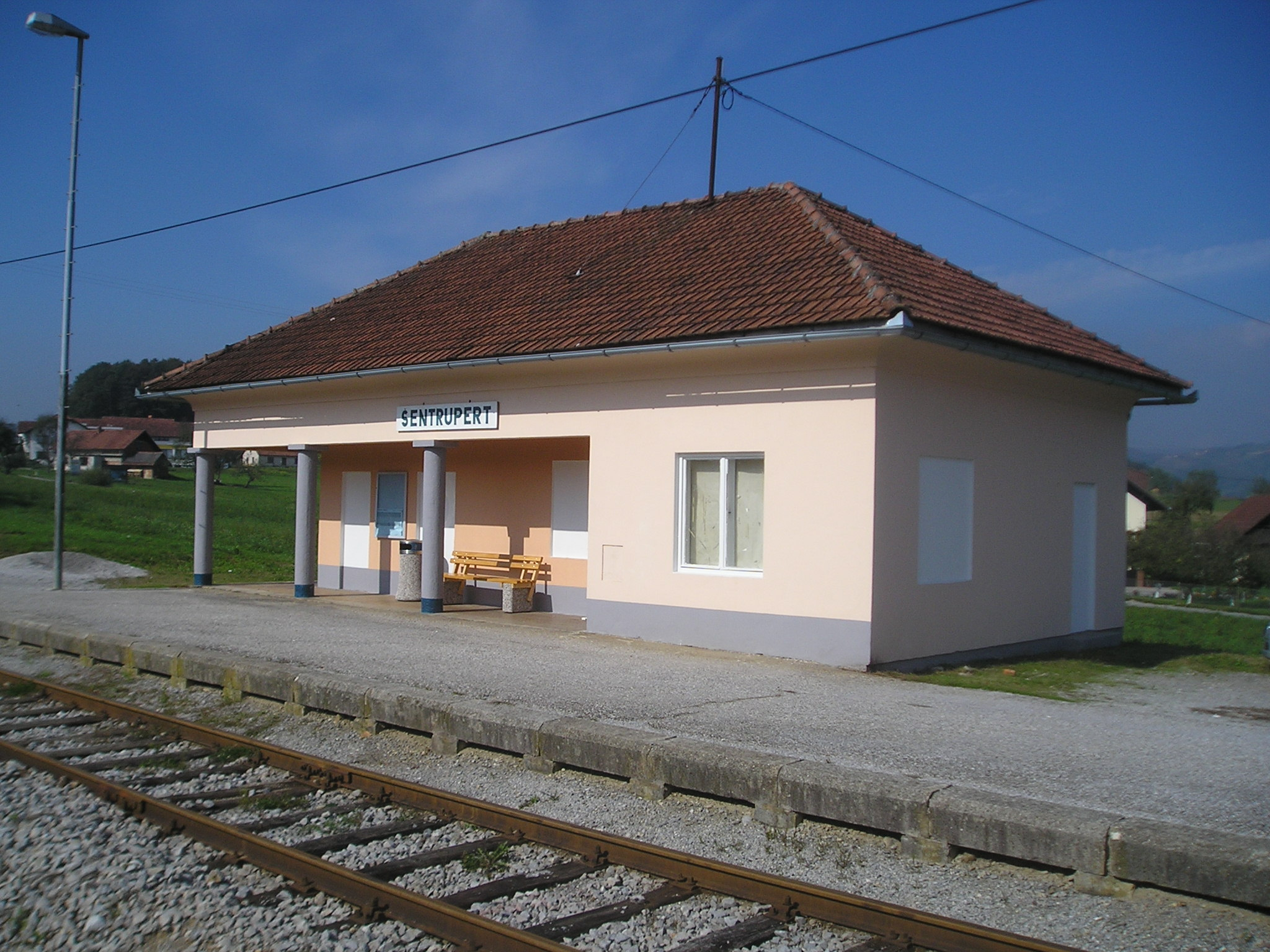 Railway halt Šentrupert, actually located in Slovenska Vas